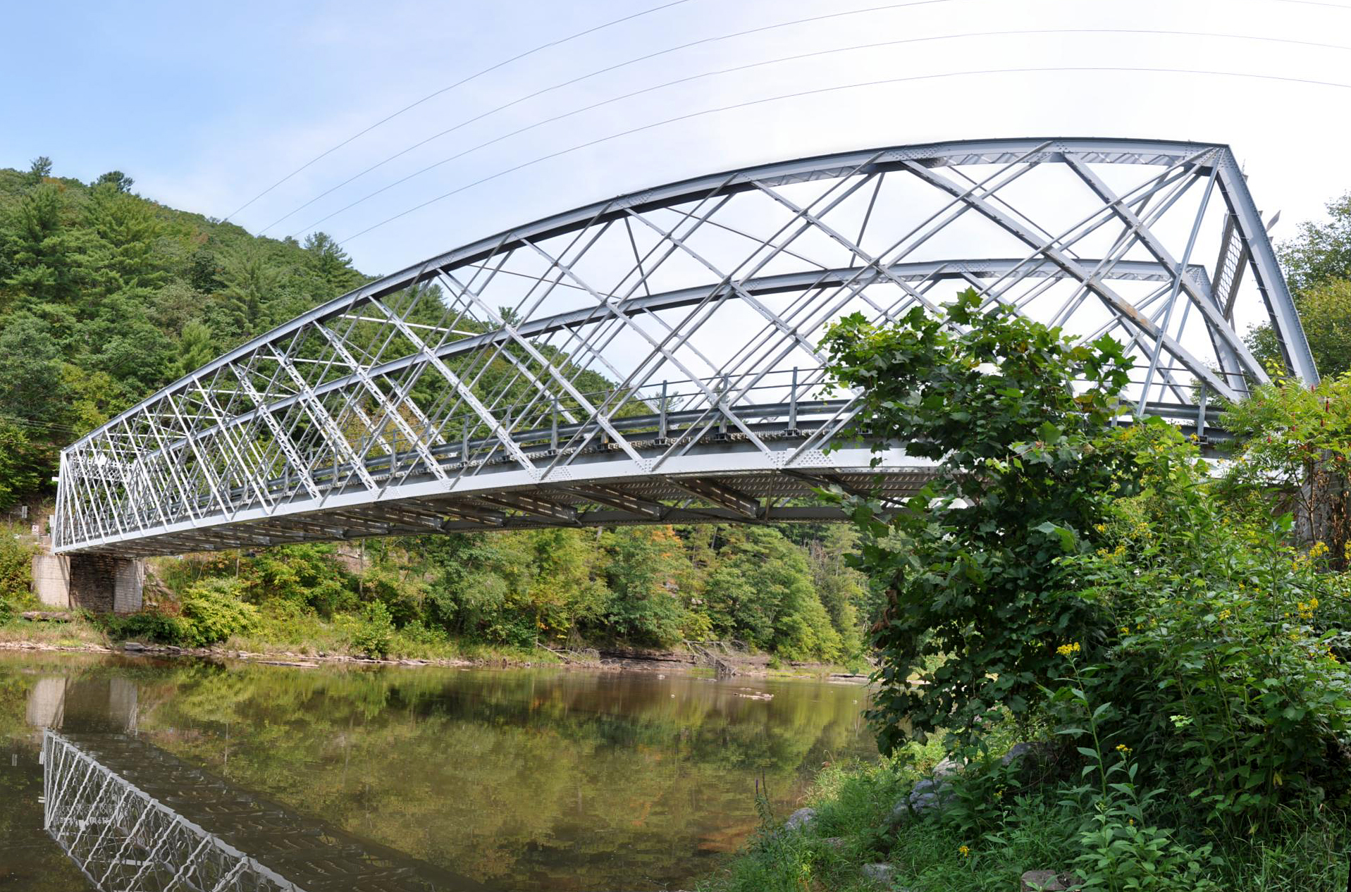 Bridge in Brown Township over Pine Creek in the U.S. state of Pennsylvania. It carries Route 414 over the creek between the villages of Slate Run and Cedar Run. Originally 6 vertical images. This panoramic image was created with Autostitch (stitched images may differ from reality).